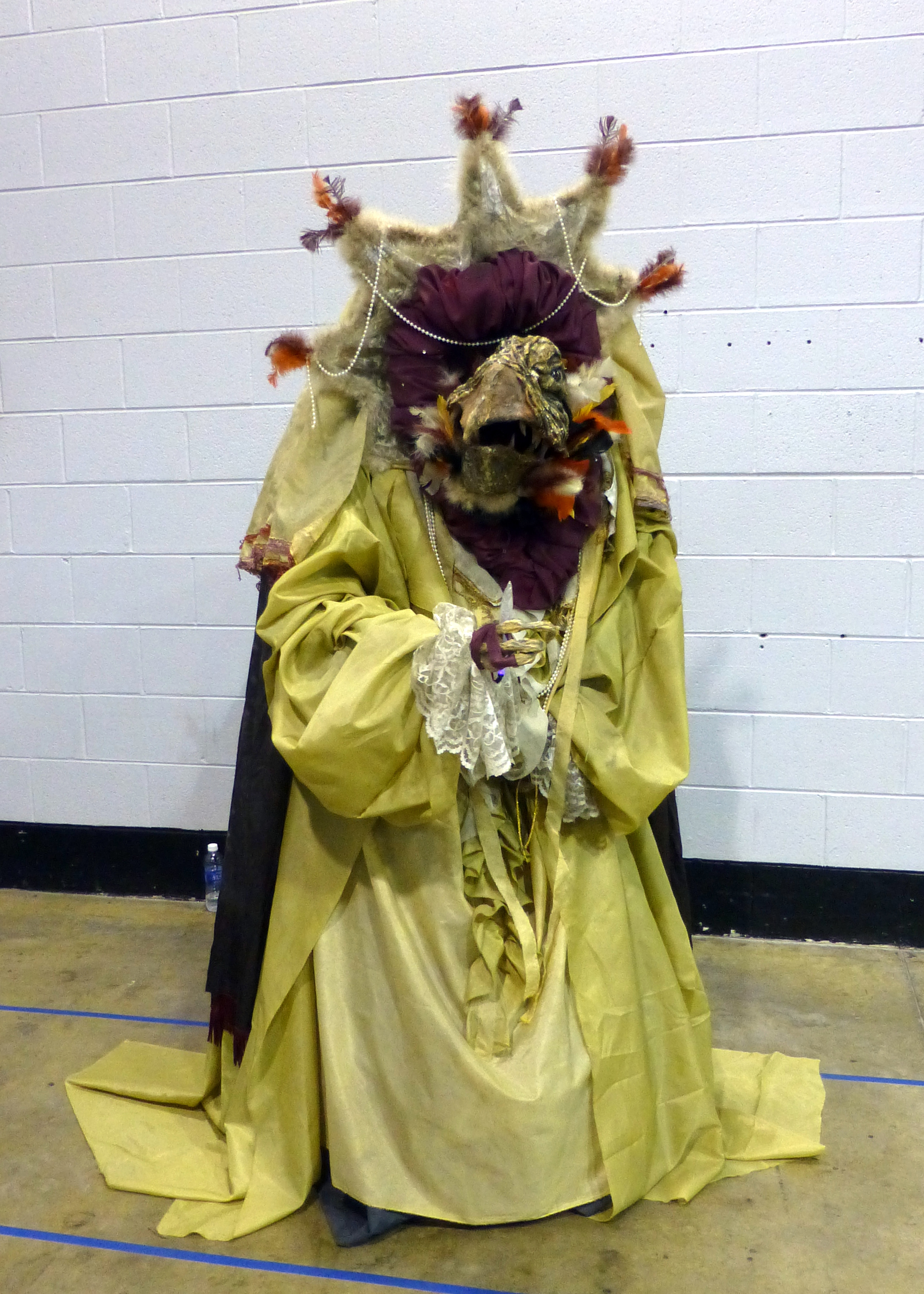 Skeksis from Dark Crystal Cosplay at the 2015 Wizard World Chicago.